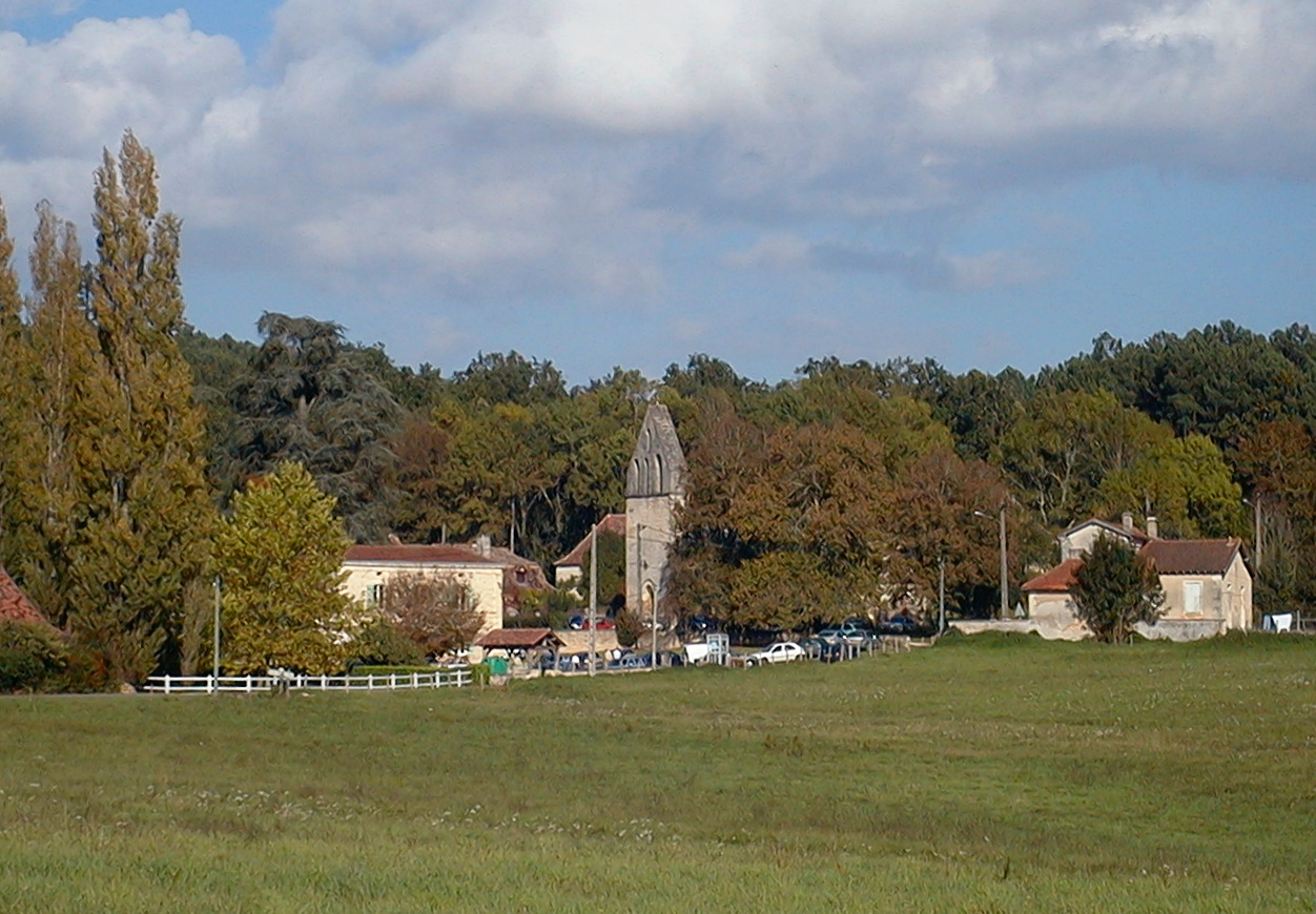 Eglise Neuve d'Issac (Dordogne)